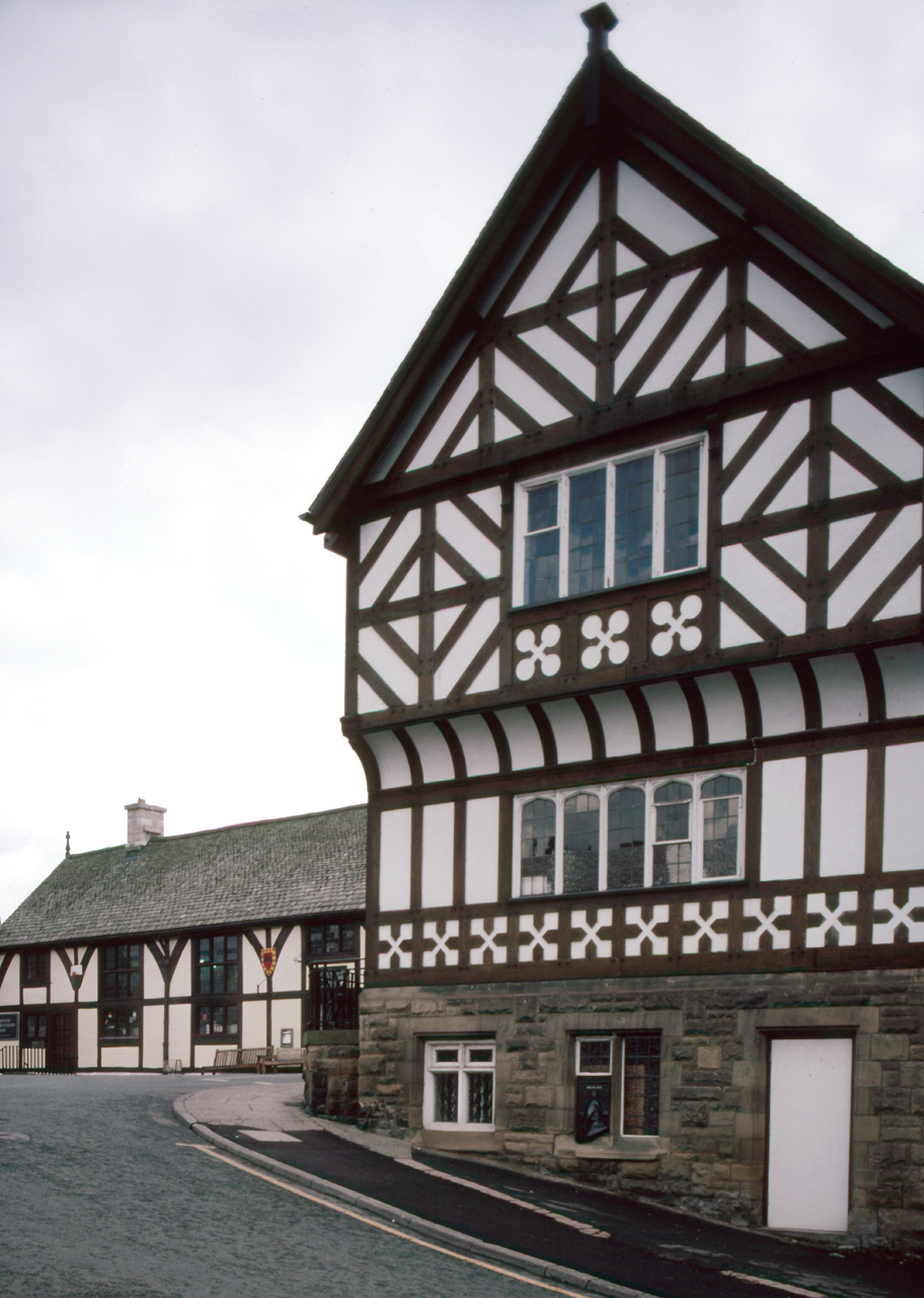 Tudor Exmewe Hall in the village of Ruthin in North-Wales/UK; the building, now a bank, is located just off St Peter's Square